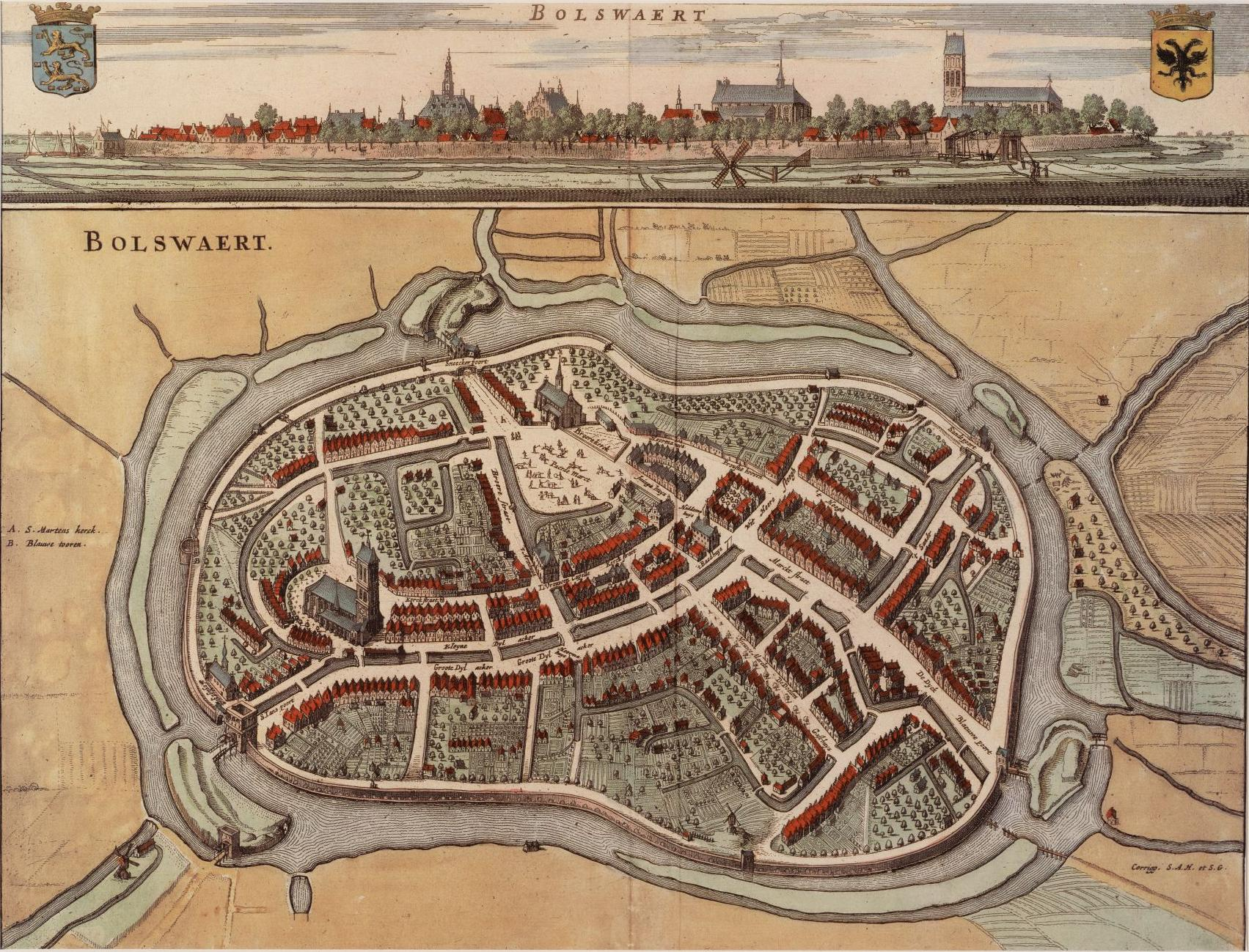 Elf reproducties van Friese stadsplattegronden uit de Beschrijving van Heerlijkheydt van Friesland door Bernardus Schotanus a Sterringa uitgegeven in 1664 Bolswaert